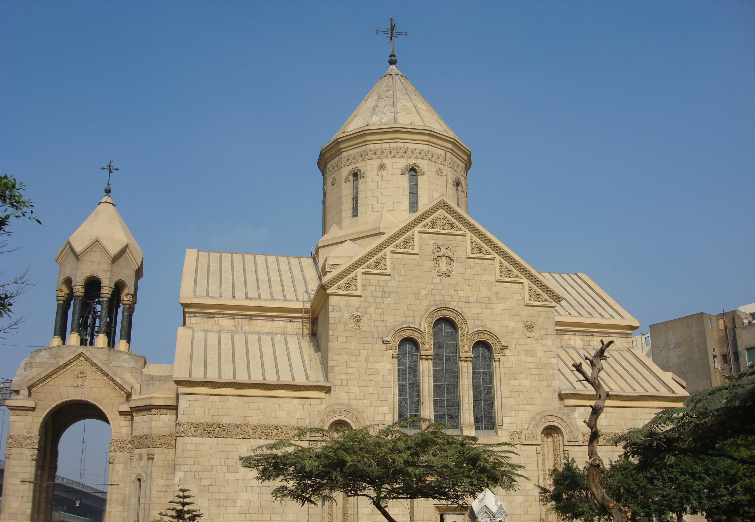 The Armenian Orthodox Patriarchate and St. Gregory The Illuminator Armenian Apostolic Church in Cairo